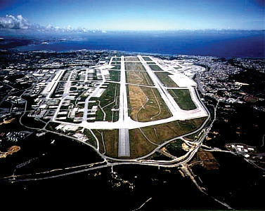 Aearial view of Kadena Air Base on Okinawa